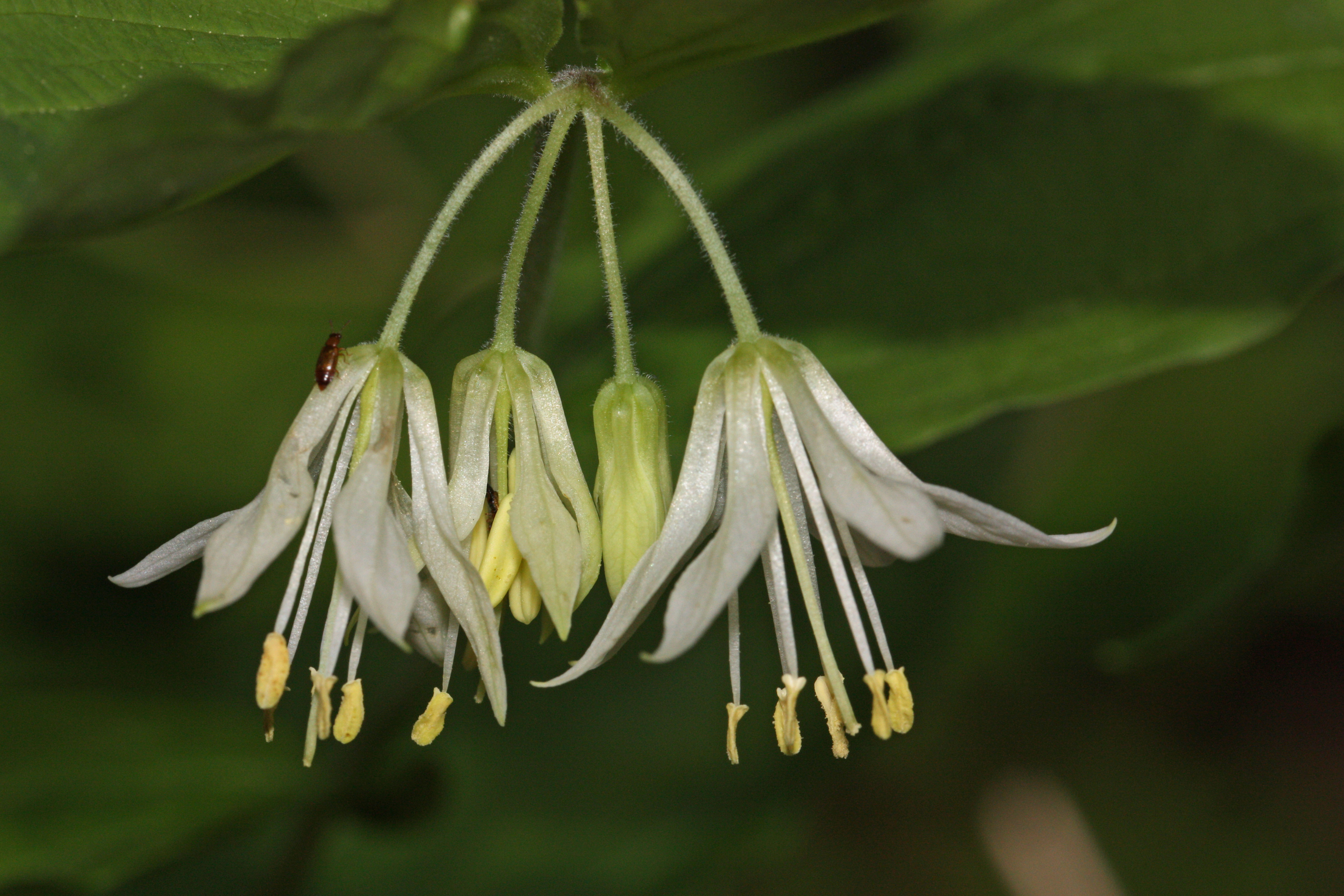 Hooker Fairy-bell.